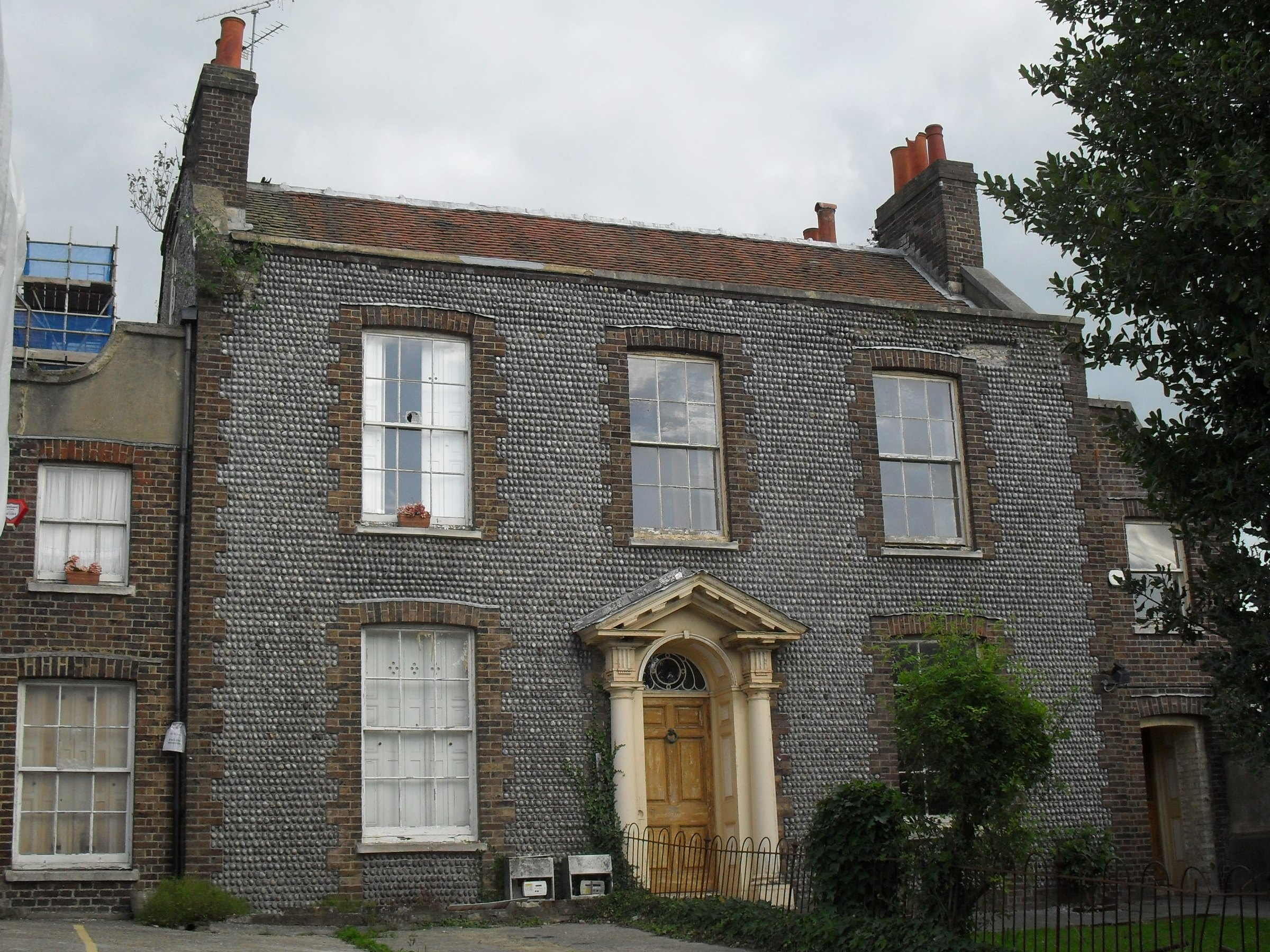 34 and 35 Mighell Street, Carlton Hill, City of Brighton and Hove, England. An early 19th-century farmhouse which is now in residential use. It survived the wholesale redevelopment of the Carlton Hill area between the 1930s and the 1960s. Listed at Grade II by English Heritage (IoE Code 482161)